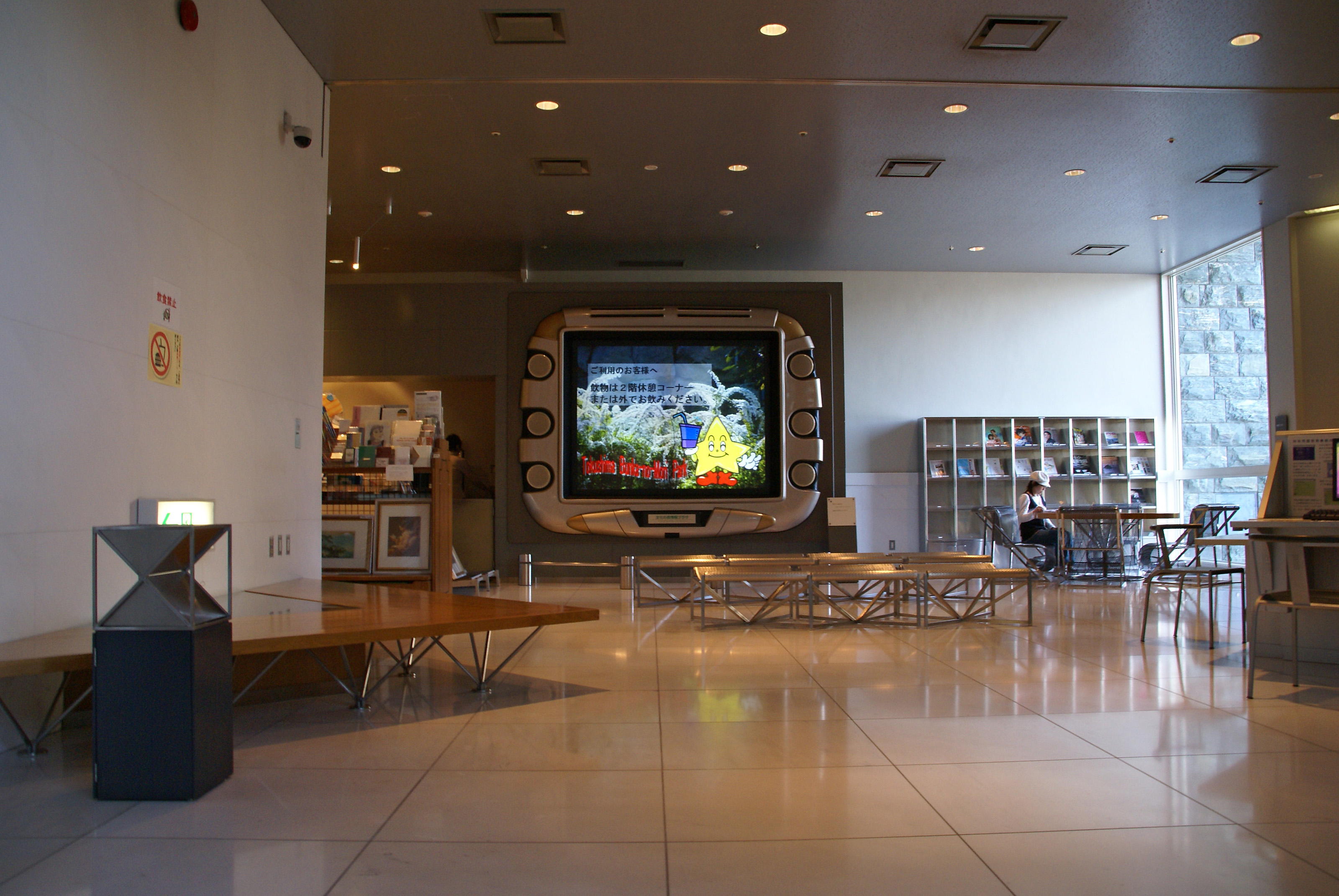 Tokushima 21st Century Cultural Information Center and Tokushima Prefectural Museum and The Tokushima Modern Art Museum of Tokushima Bunka-no-Mori Park in Tokushima, Tokushima prefecture, Japan